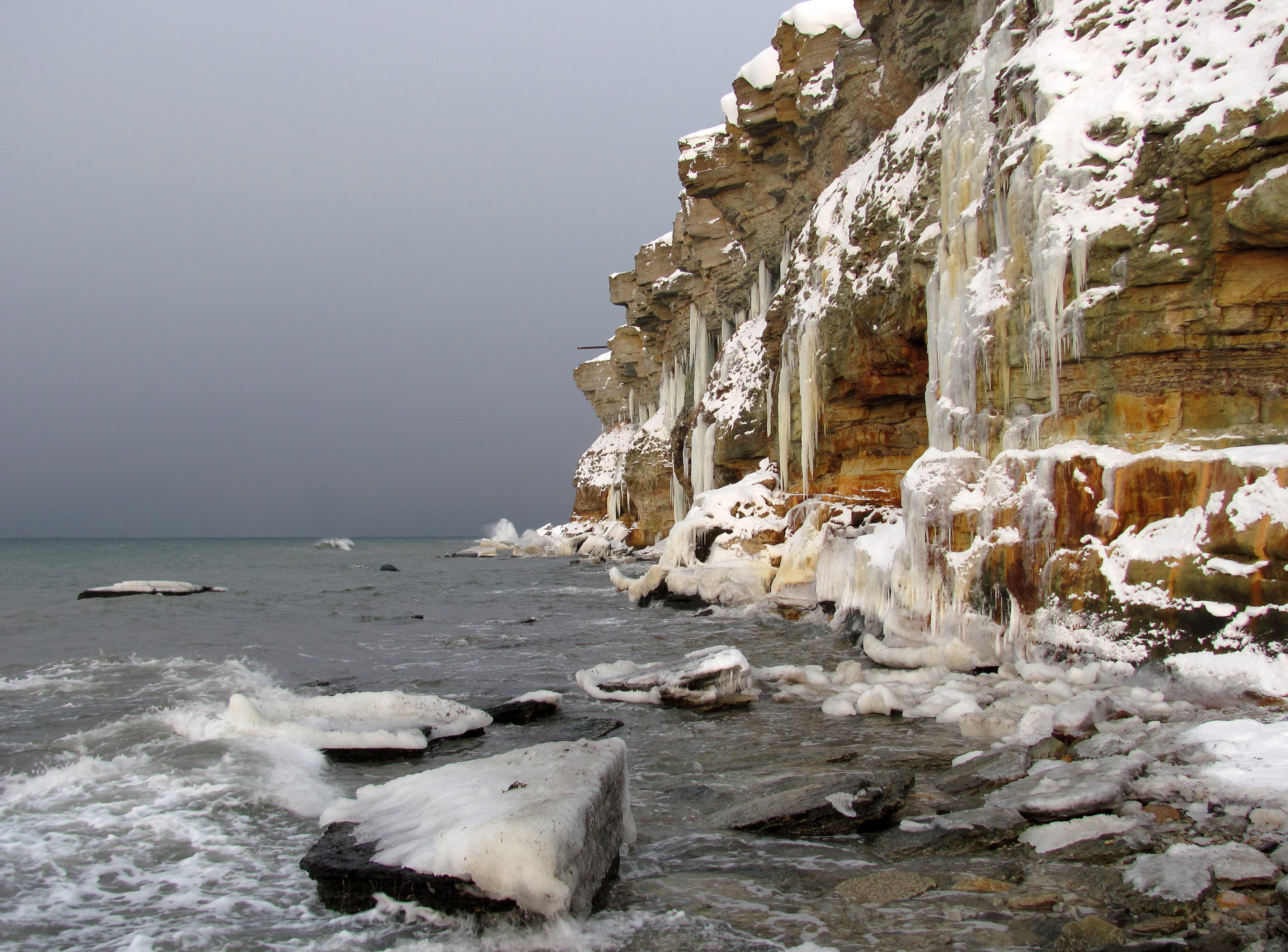 Pakri cliff near Paldiski, Northern Estonia